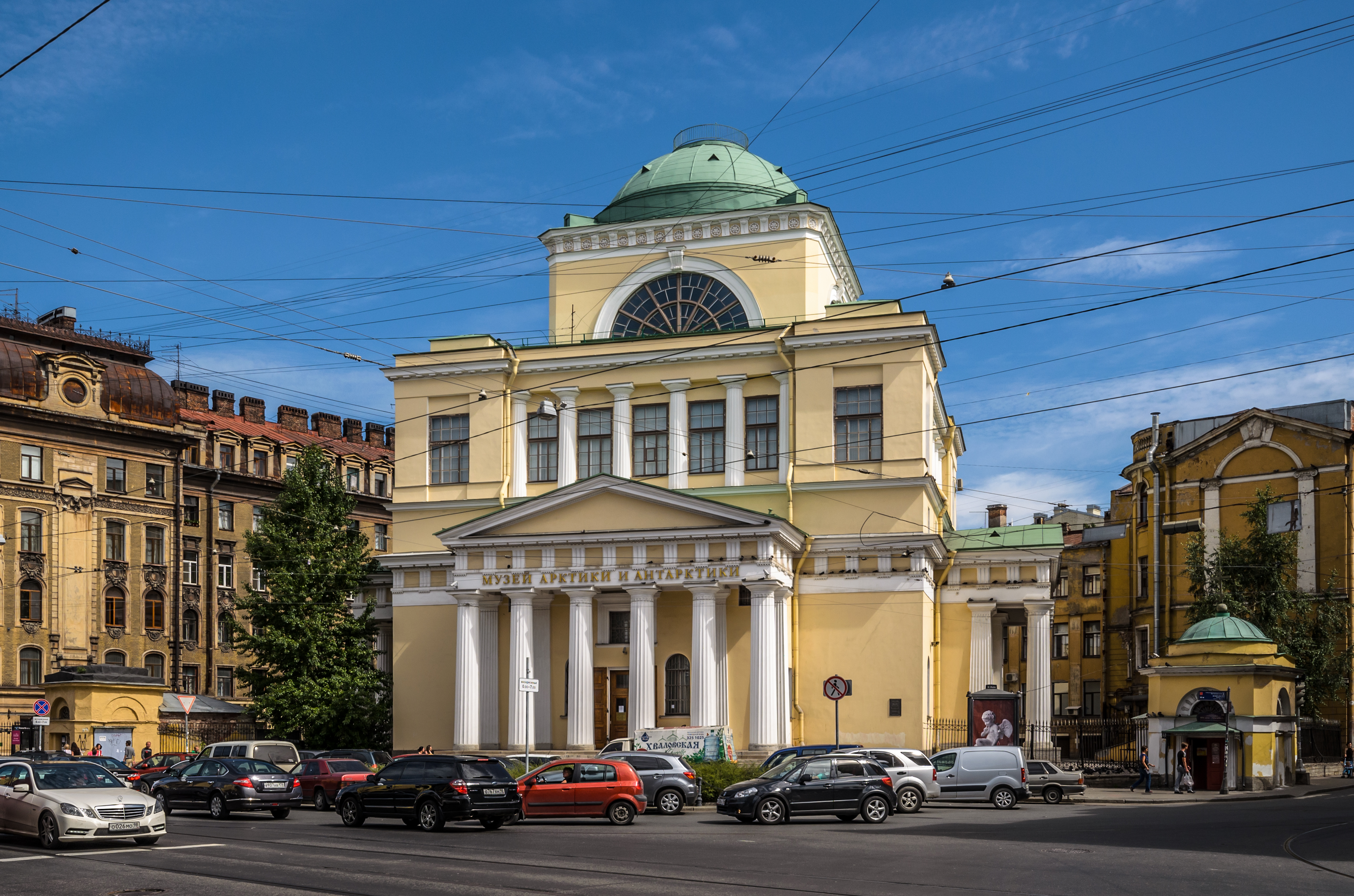 Arctic and Antarctic Museum in Saint Petersburg